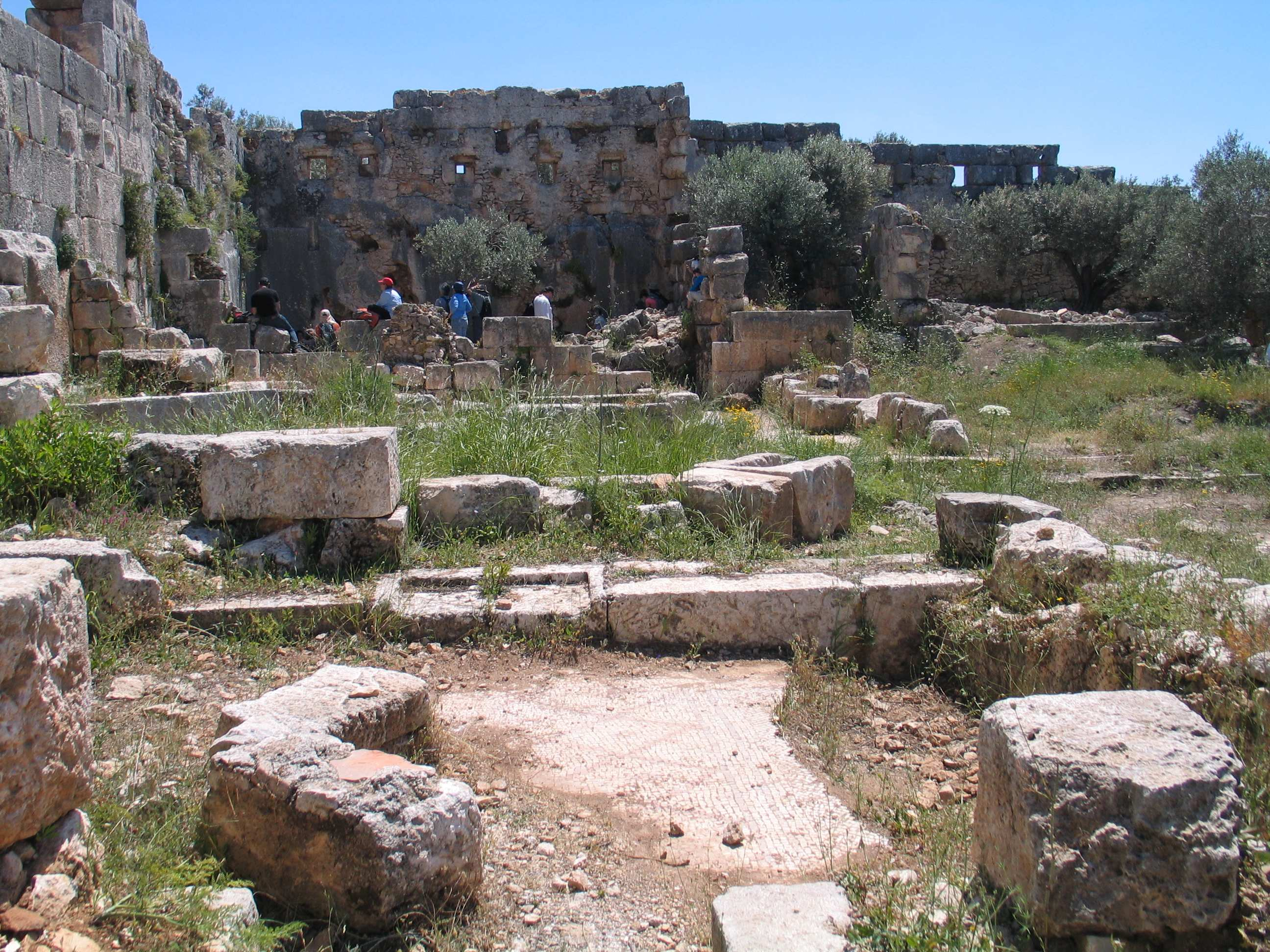 Deir Qala - Byzantine period monastery adjacent to the settlement Pduel in Samaria.